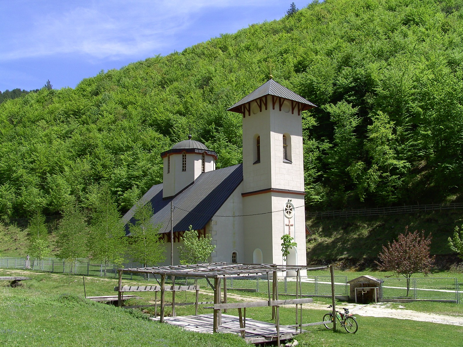 Glogovac Monastery in Bosnia and Herzegovina